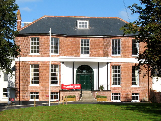 Sidmouth Kennaway House Recently restored Regency period house, close to the Parish Church. Now used for exhibitions and other community events and activities.